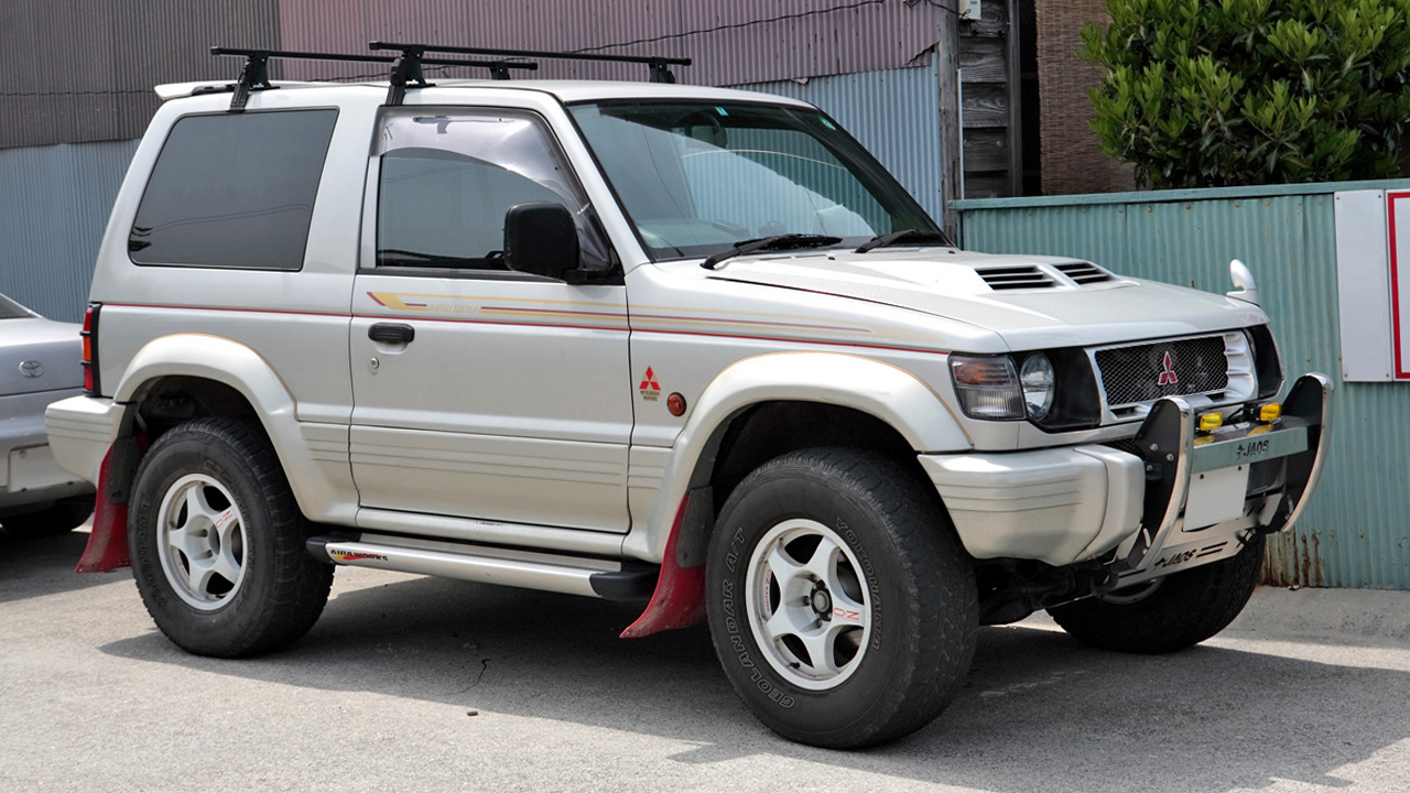 Second generation Mitsubishi Pajero Metal-top Wide 3.5 ZR Limited edition ( V25W )